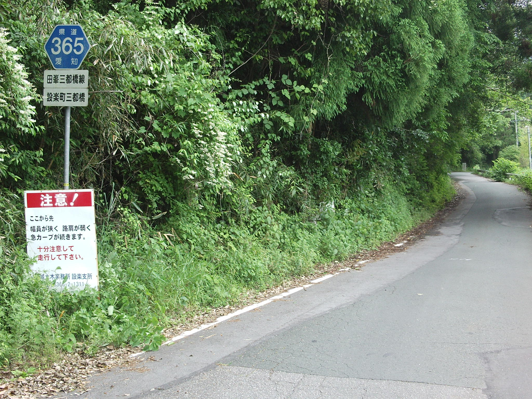 Aichi prefectural road No.365 in Mitsuhashi, Shitara-cho, Kitashitara-gun, Aichi.